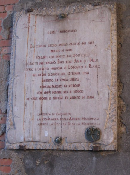 Plaque to the Siege of Grosseto